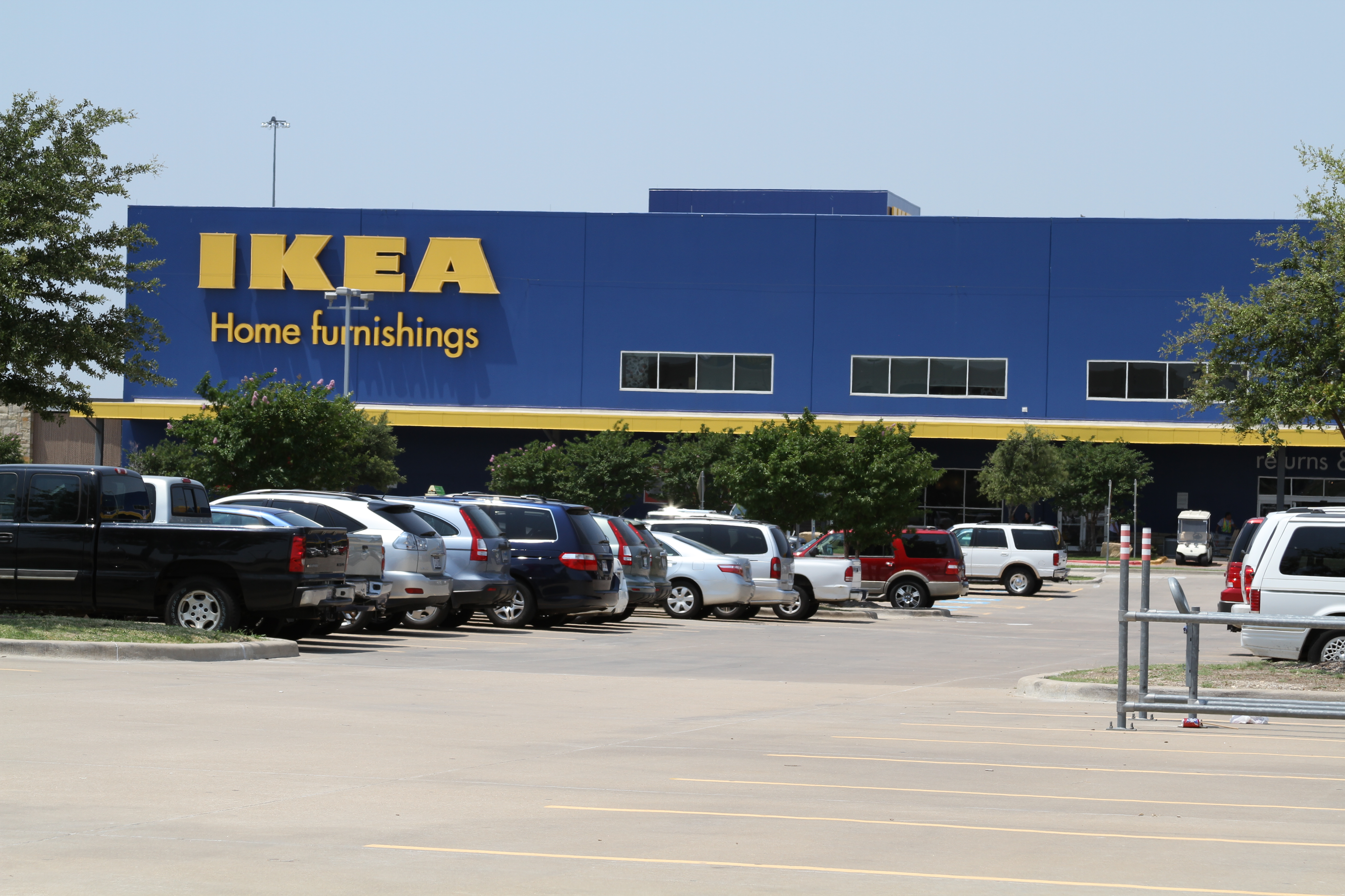 The IKEA store in Frisco, TX, USA.